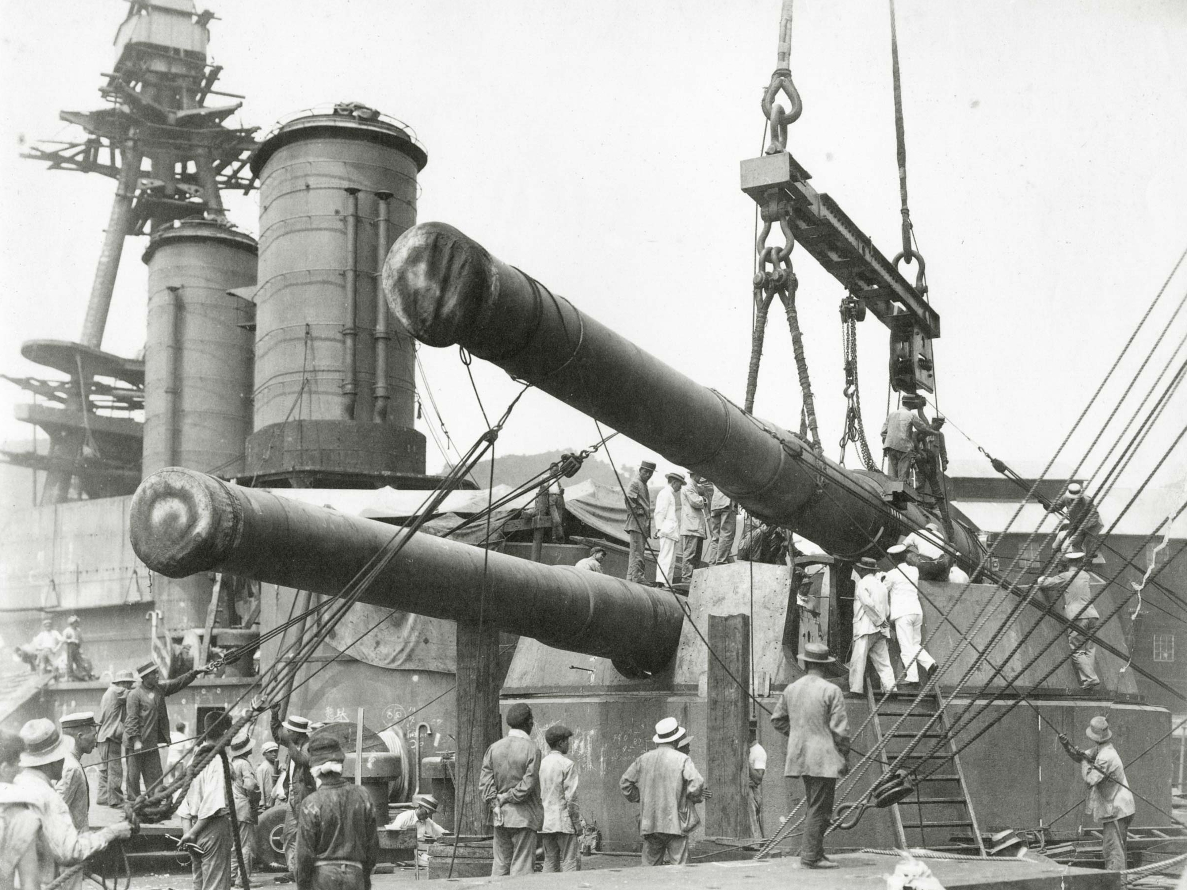 Installation of 14-inch gun in Hyūga's No. 3 gun turret